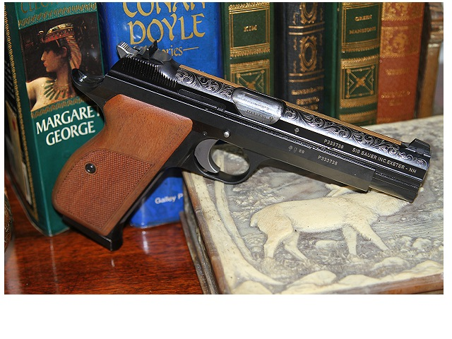 Sig 210 Legend